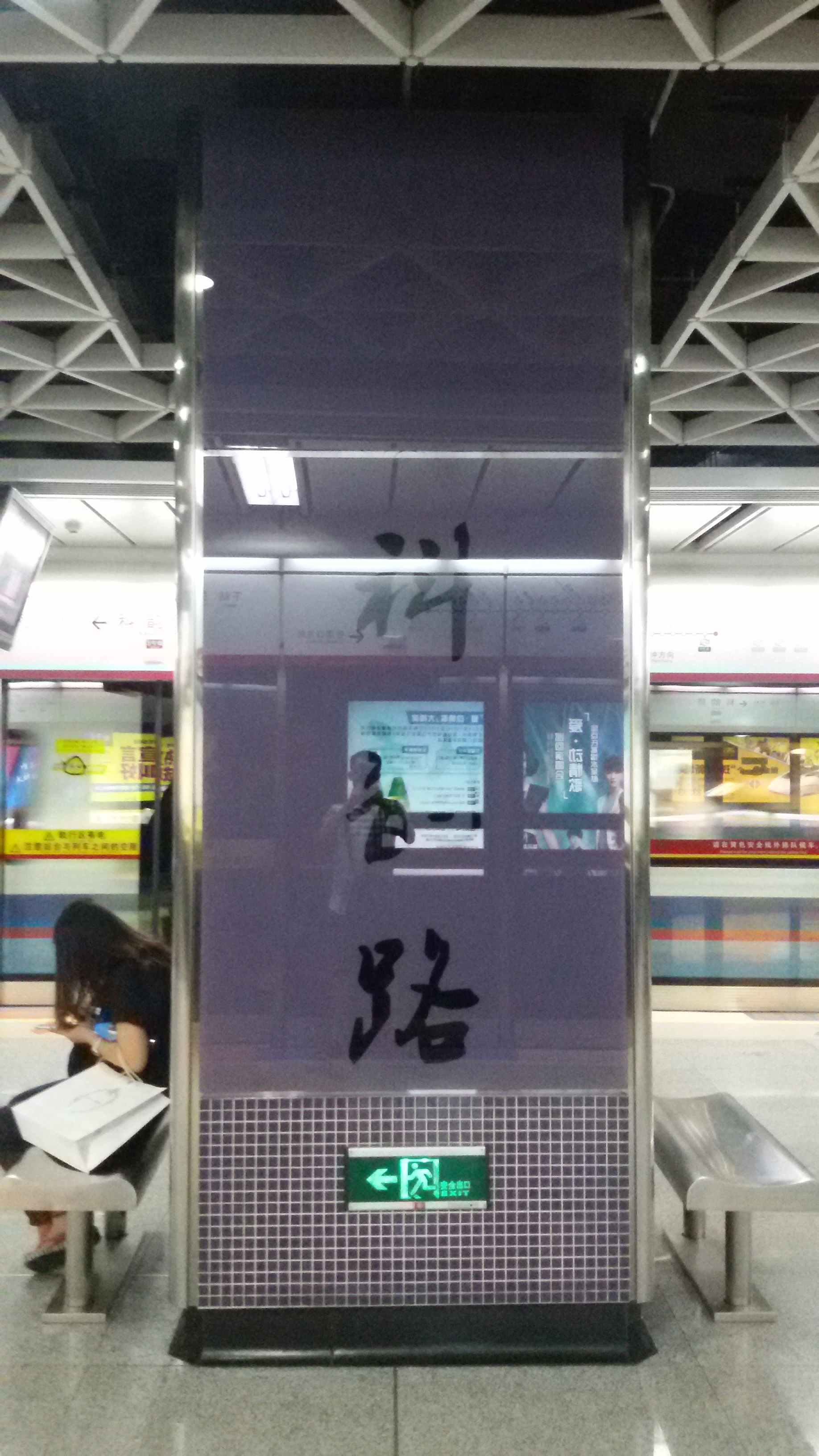 WORD on PILLAR for Keyunlu Station in Guangzhou Metro.